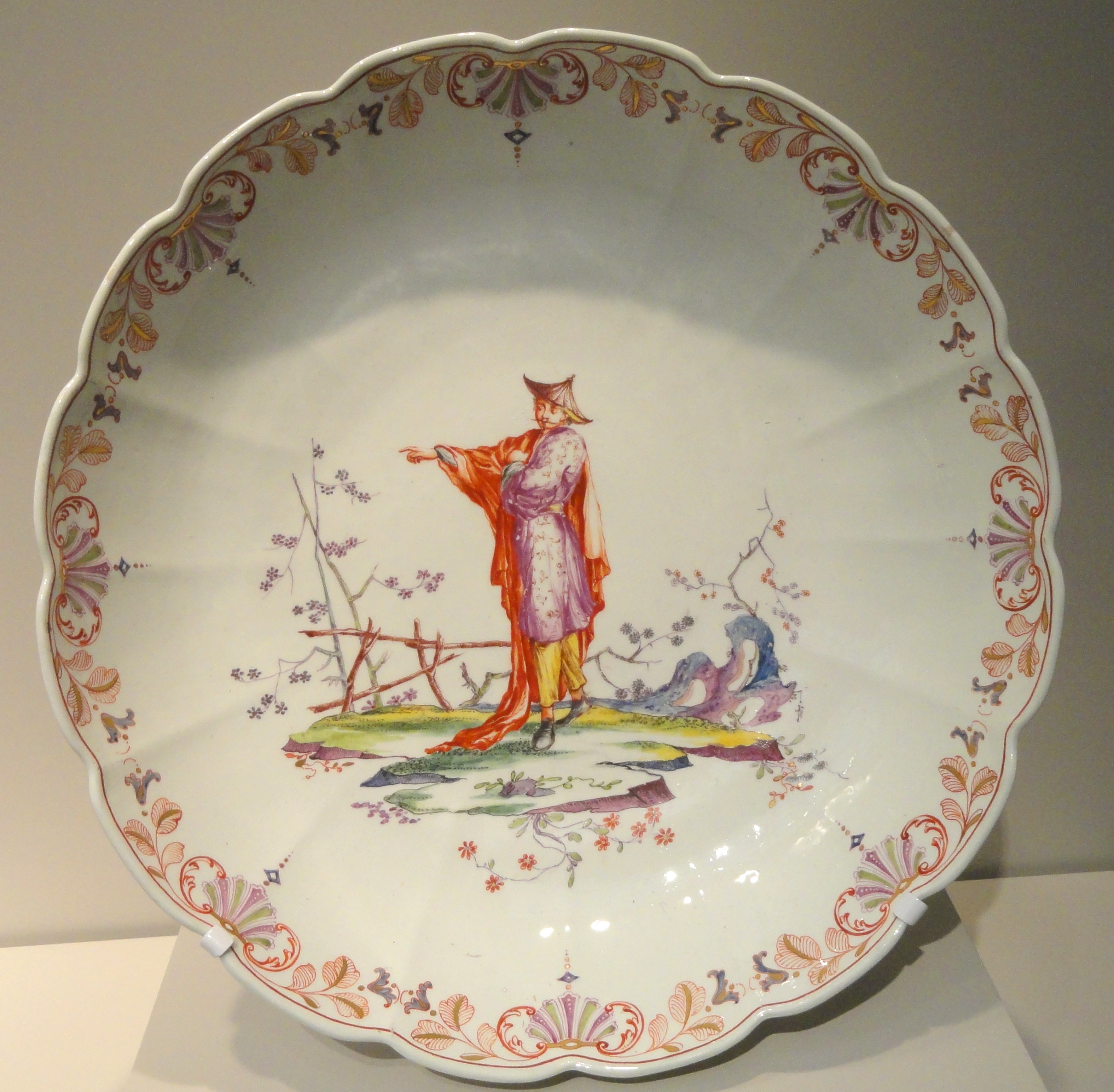 Exhibit in the Art Institute of Chicago, Chicago, Illinois, USA. This artwork is in the public domain because the artist died more than 70 years ago.